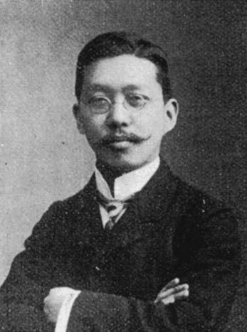 Mr. Masatsugu Tsukahara, professor of the Hiroshima Higher Normal School.